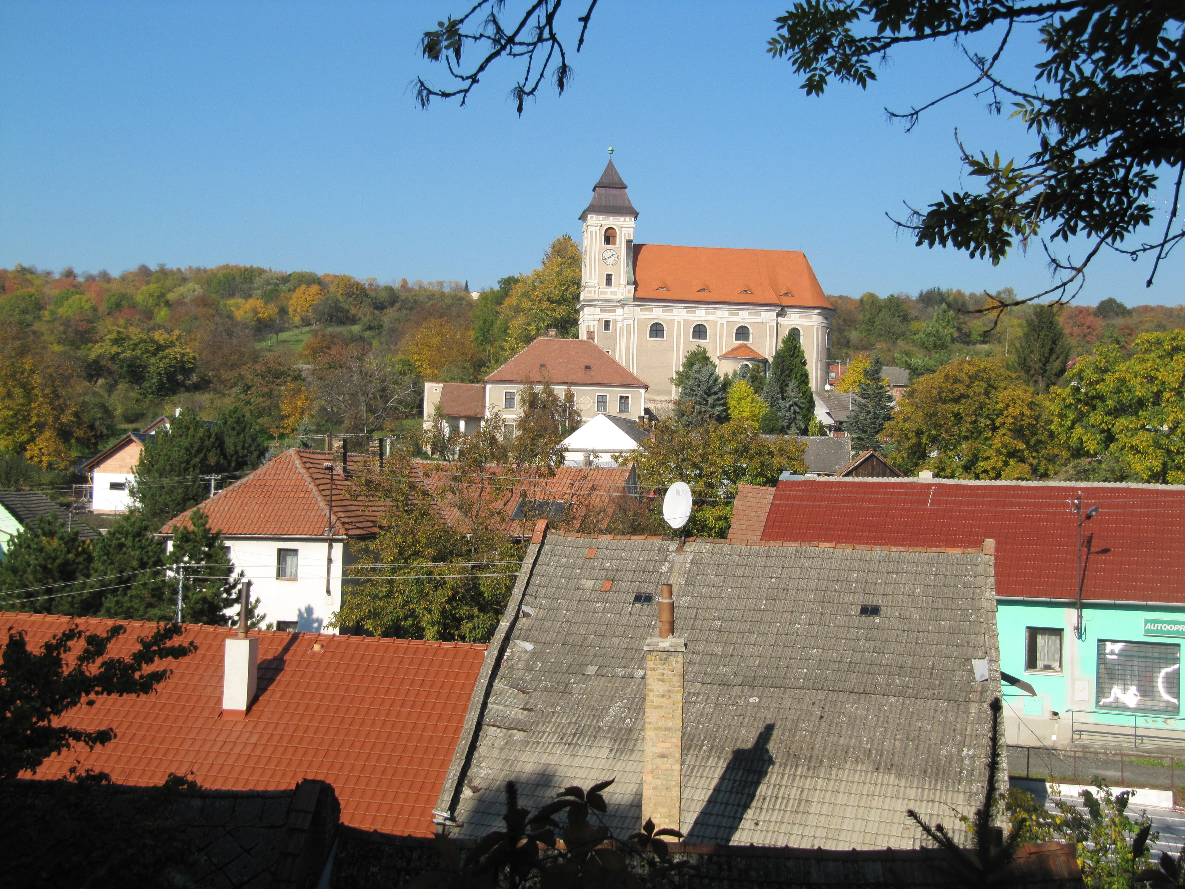 Litenčice in Kroměříž District, Czech Republic. General view.